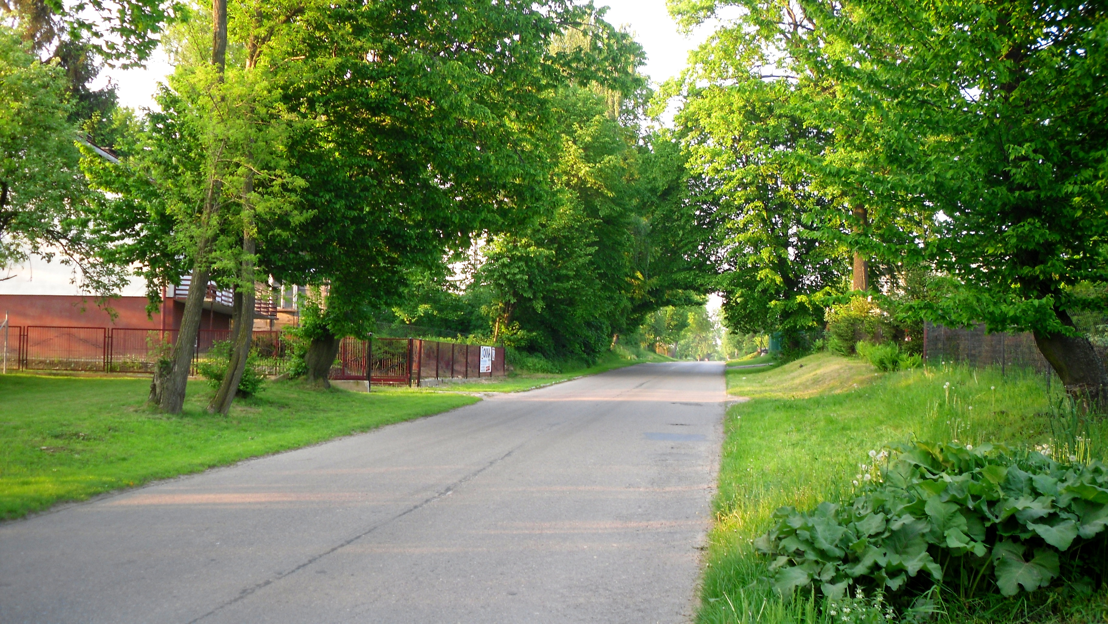 Ługów's main road